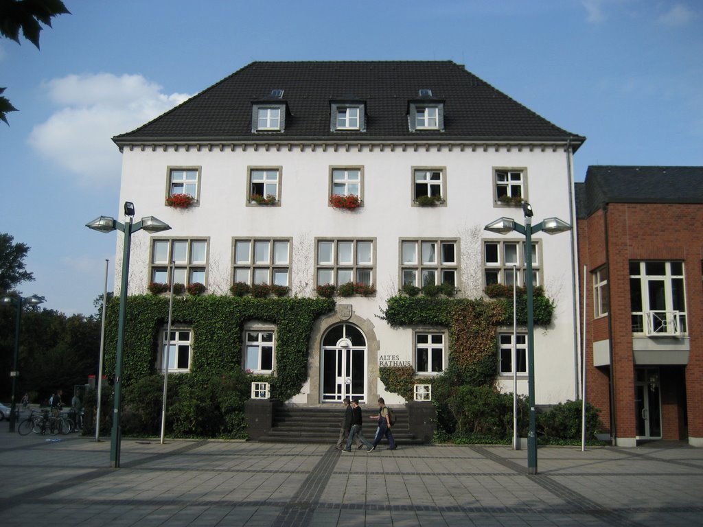 The townhall of Grevenbroich